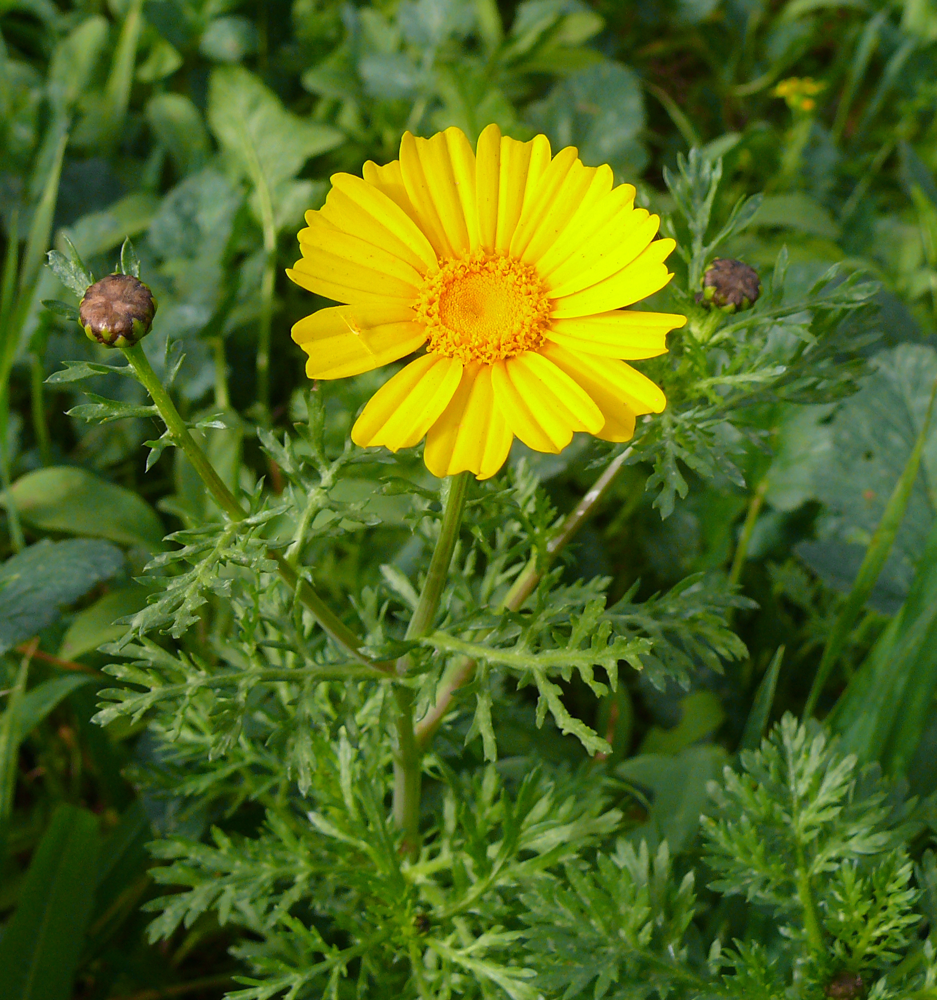 Chrysanthemum coronarium, also called Glebionis coronaria, in Bney Zion (Charutzim) Reserve in HaSharon, Israel